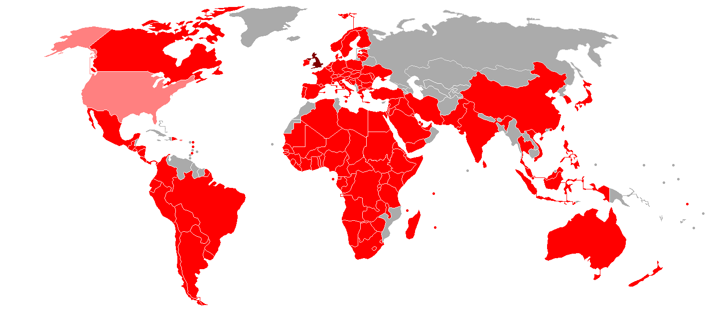 Countries that has at least one product of KitKat Dark Red: UK (country of origin) Red: Countries with KitKat products owned by Nestlé Light Red: Countries with KitKat products owned by The Hershey Company (US) and